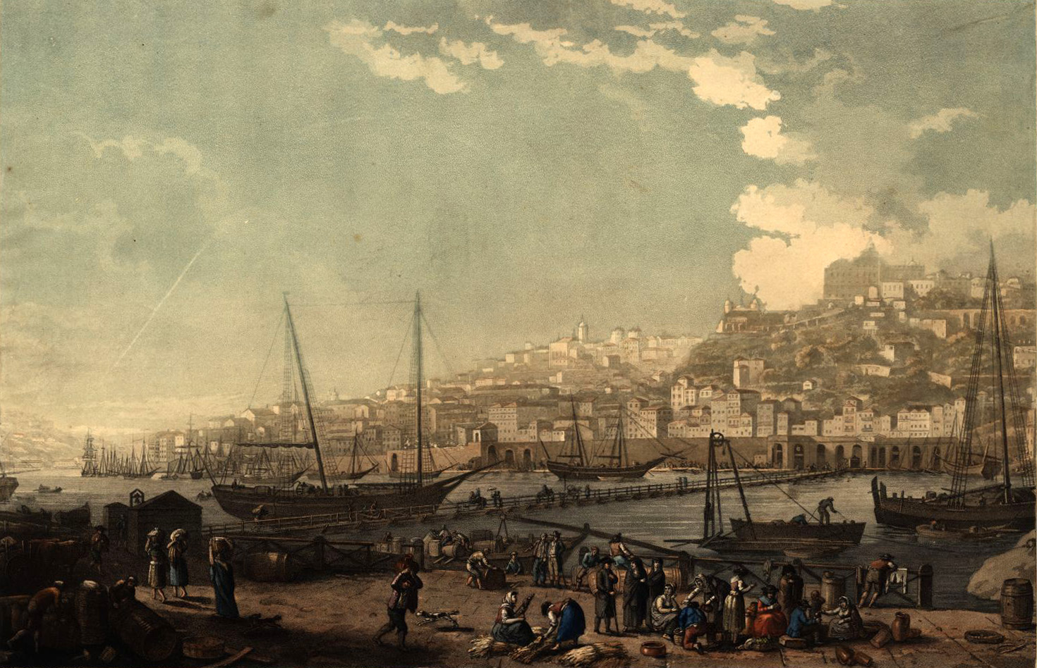 City of Porto in 1817.